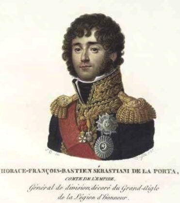 Official portrait of Horace Sébastiani